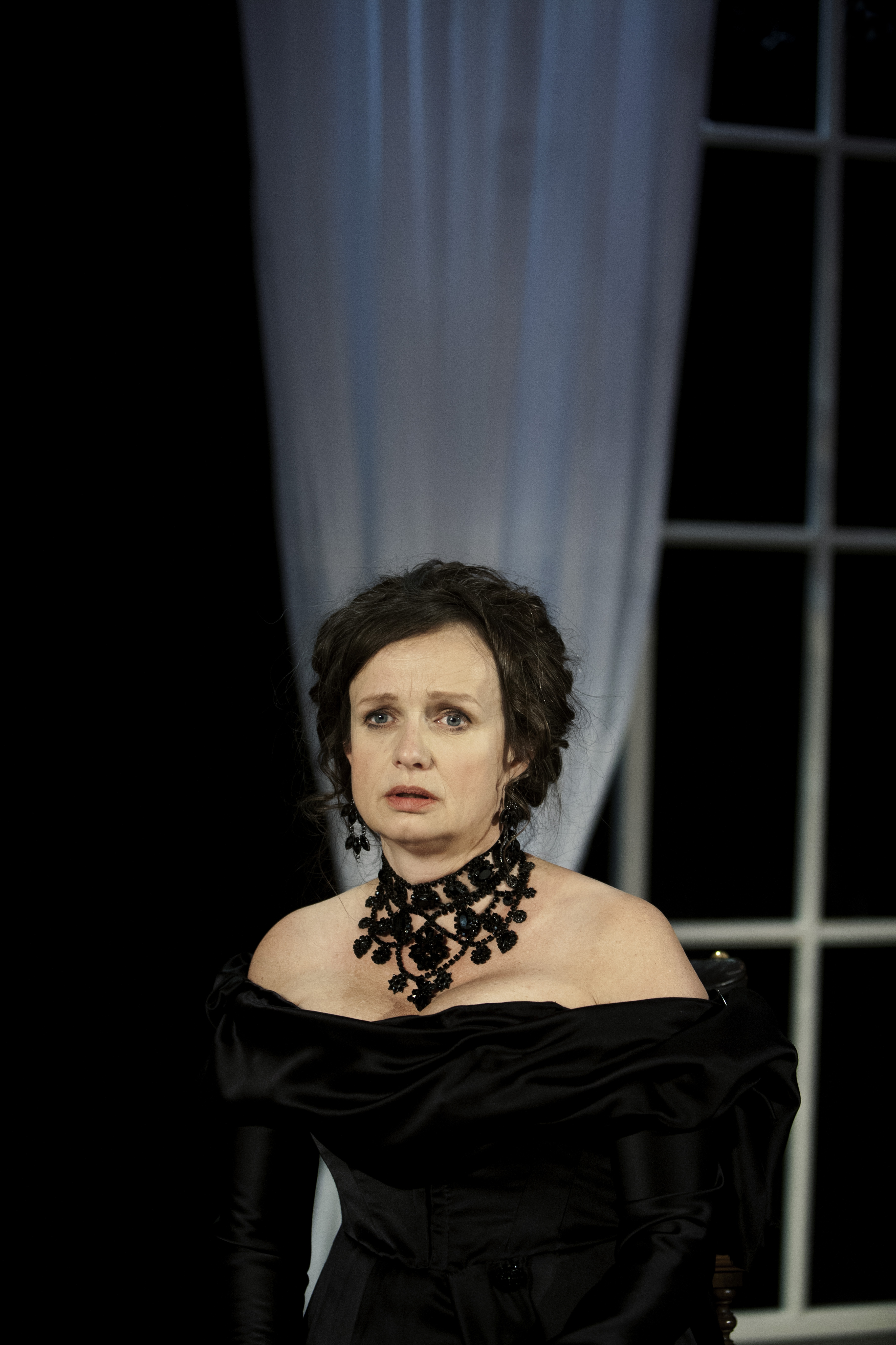 Maria Kulle in The Cherry Orchard at Helsingborgs stadsteater.